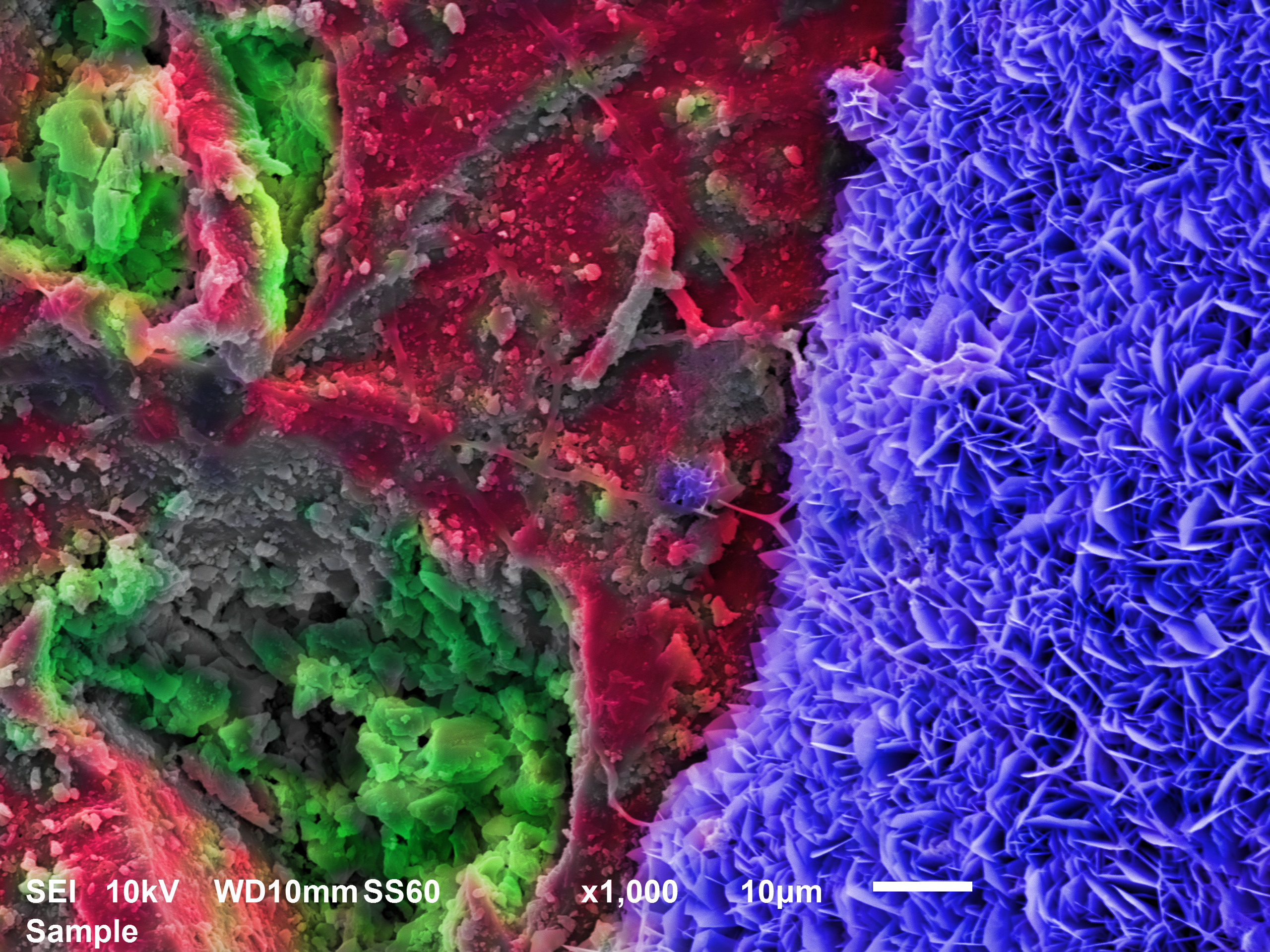 This is a microphotography from scanning electron microscope of a inorganic layer growing on biomaterial that is investigated as a potential cartilage substitute. The photos from this kind of microscope are usually black and white, as the electrons have no color like the photons do. This one is colorful not because of the light and differences in energy, but to show differences in elemental composition. Red color represents carbon, green silicon, and blue phosphorous. Having the map of different elements shown as colors we can say how homogeneous is the sample. Unfortunately what is beautiful on the photo (we can observe different, saturated colors) is not homogeneous and not satisfying from the scientific point of view. Highly homogeneous samples result with bland colors.